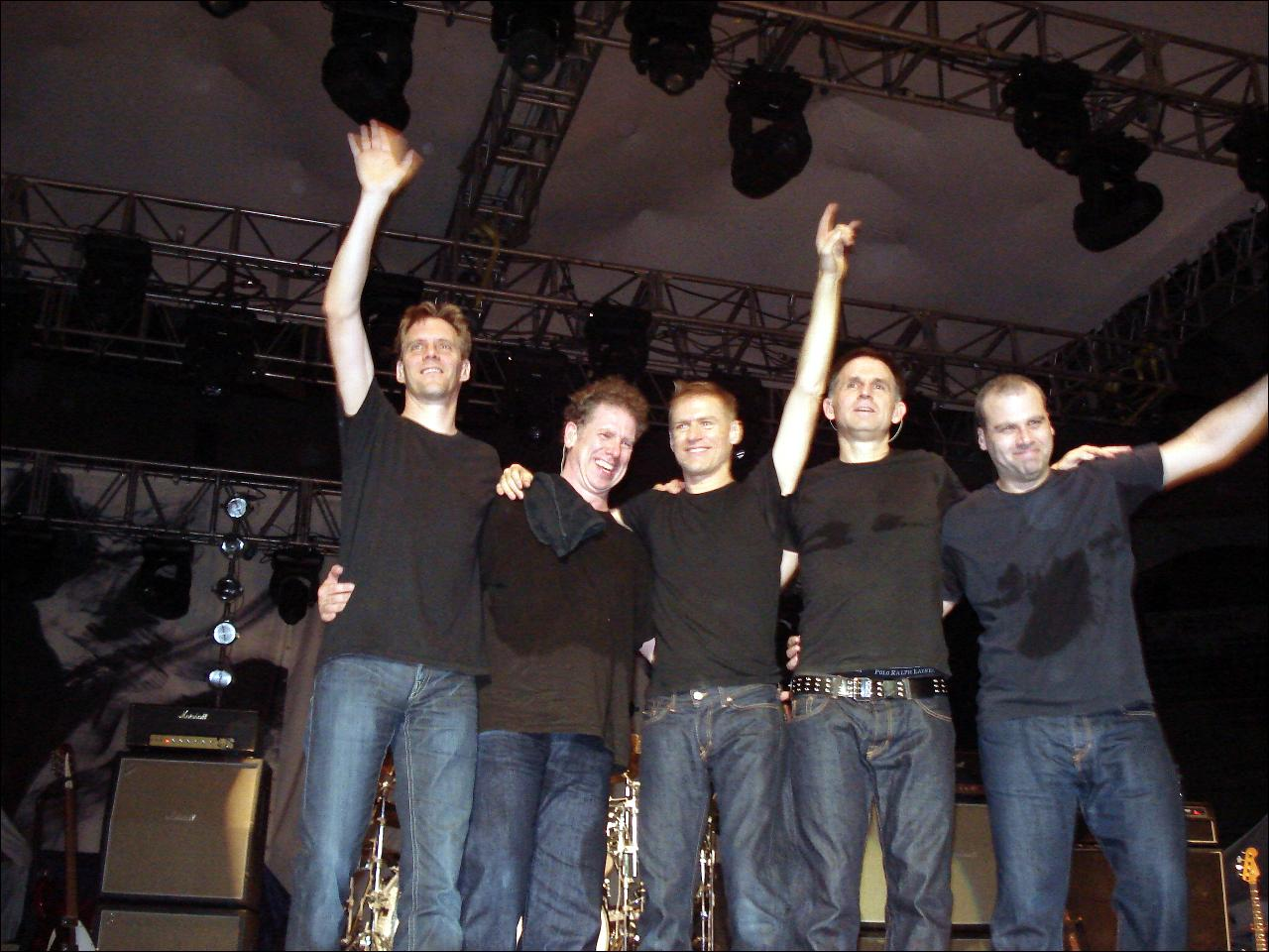 Bryan Adams live in Guadalajara, Mexico, on October 28, 2006